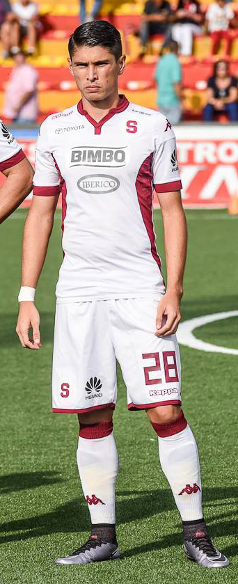 Joseph Mora playing for Deportivo Saprissa in August, 2016.